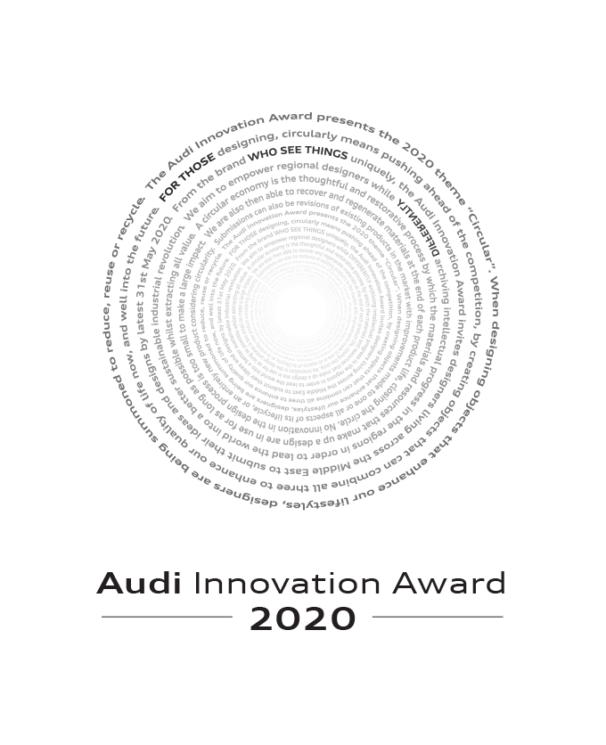 Audi Innovation Award logo